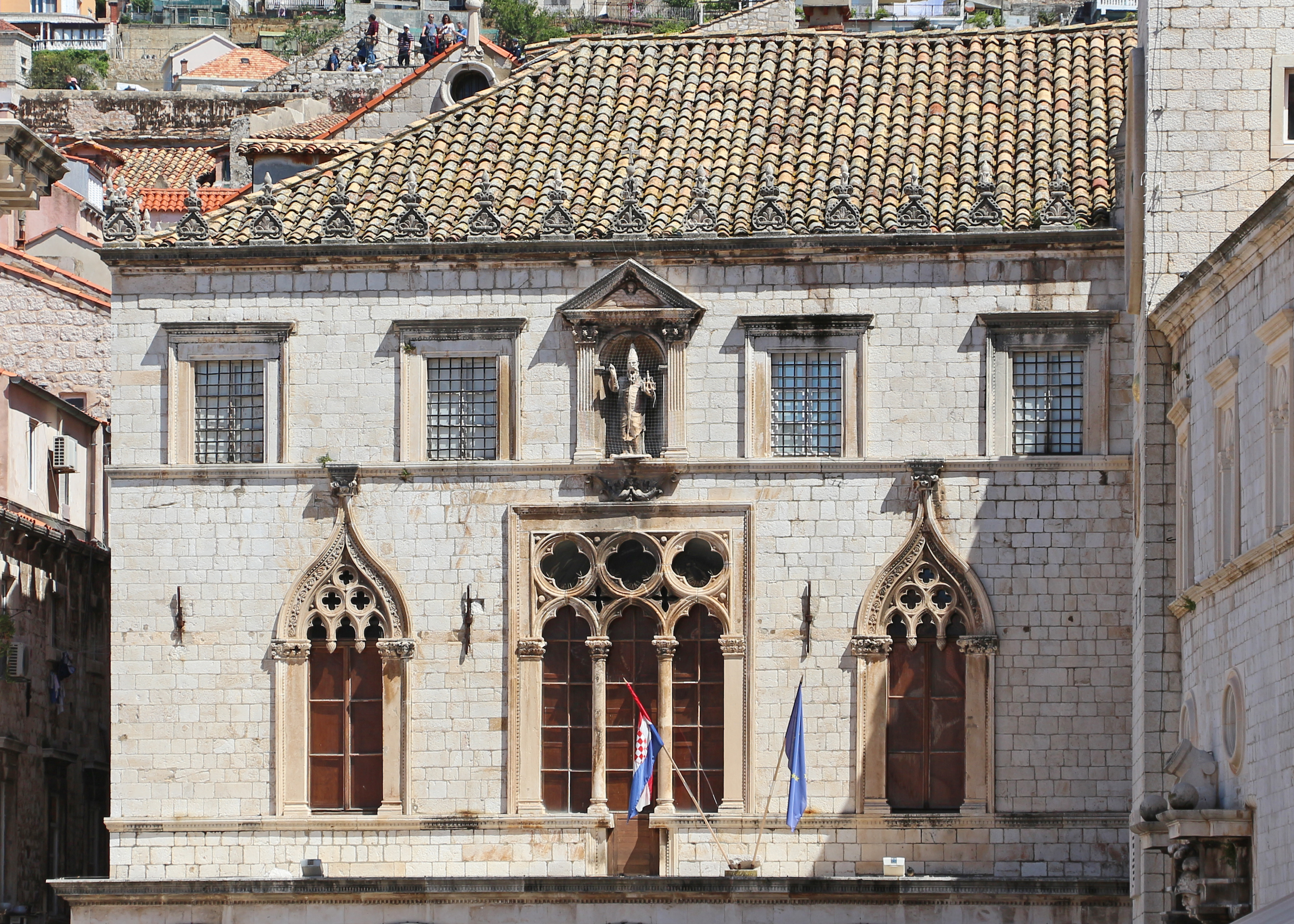 Sponza Palace, Dubrovnik, Croatia